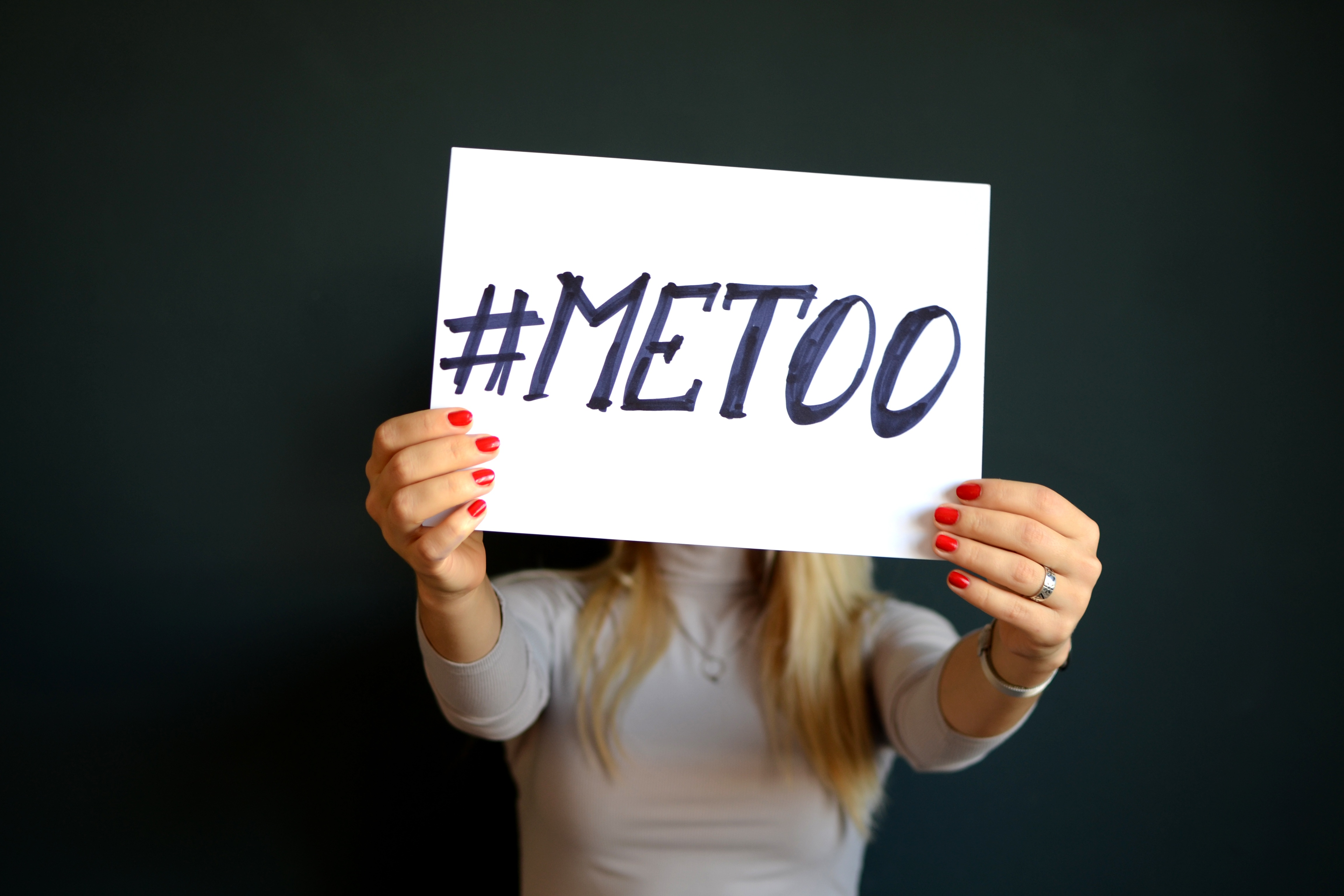 A woman holding a sign labeled "#MeToo".